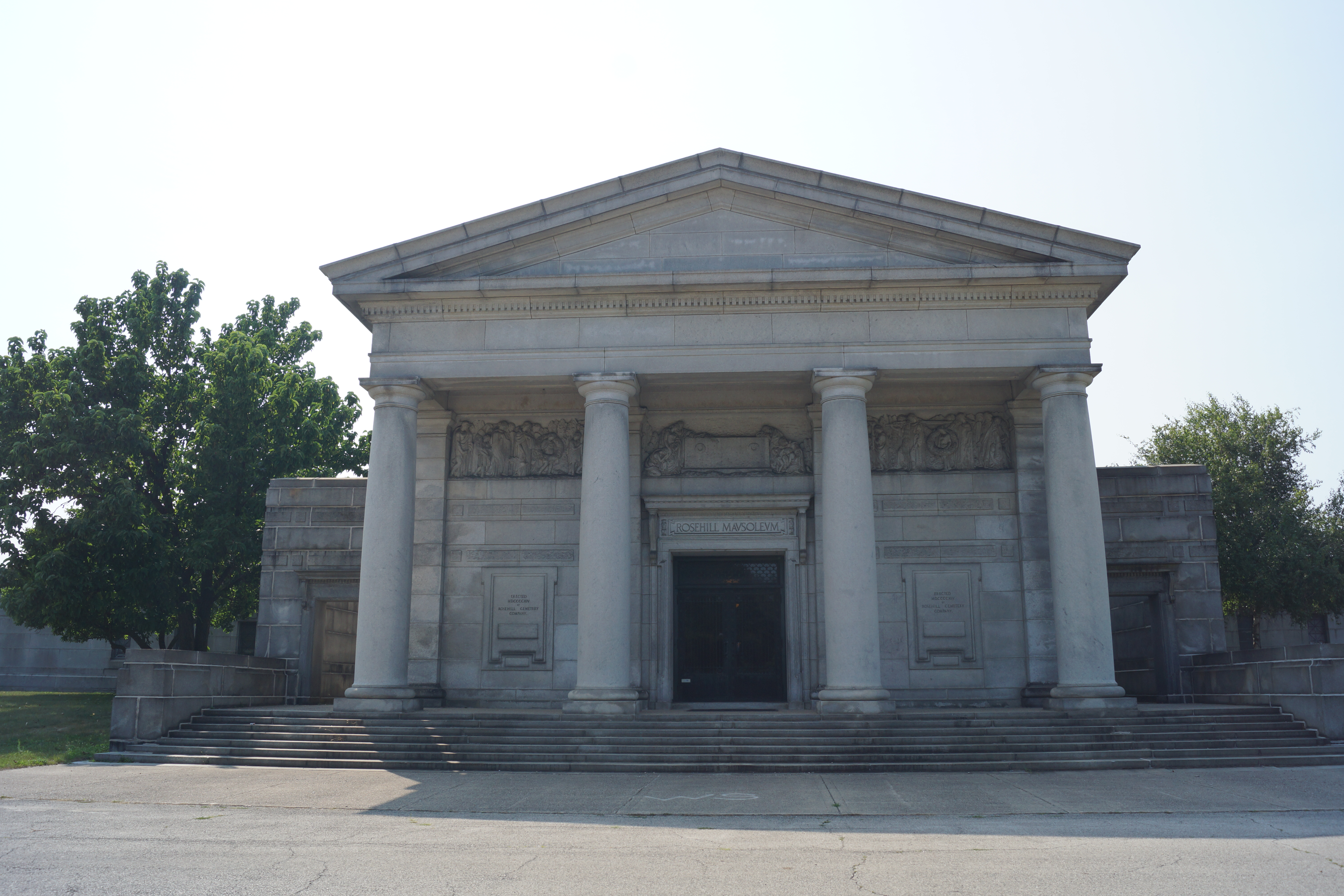 Original wing of the mausoleum at Rosehill Cemetery